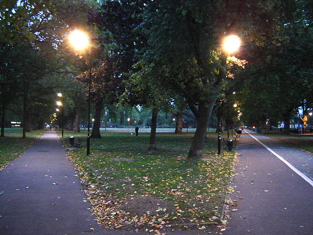 London Fields at twilight. 9 October 2005. Photographer: Fin Fahey